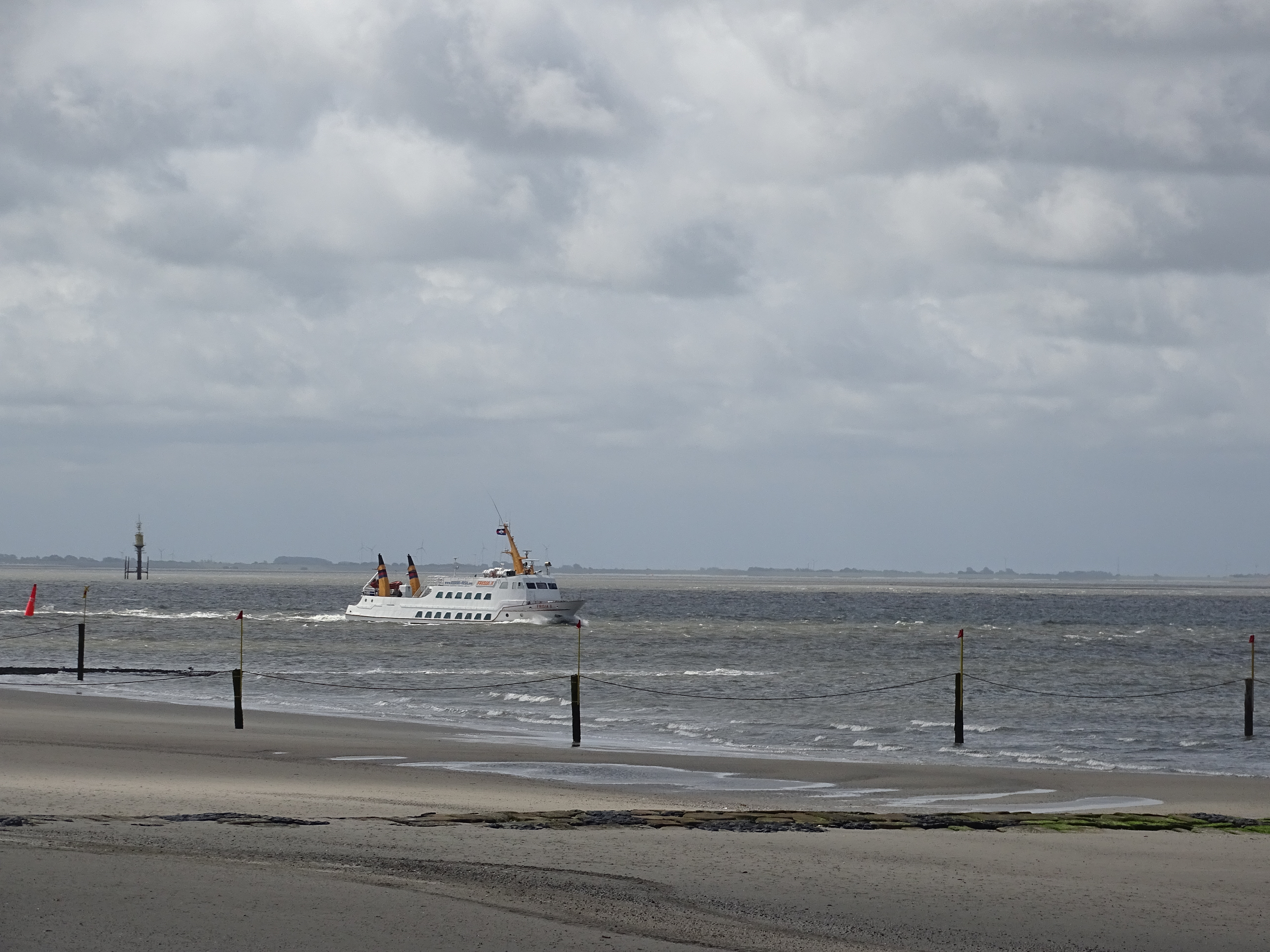 Norderney, Germany